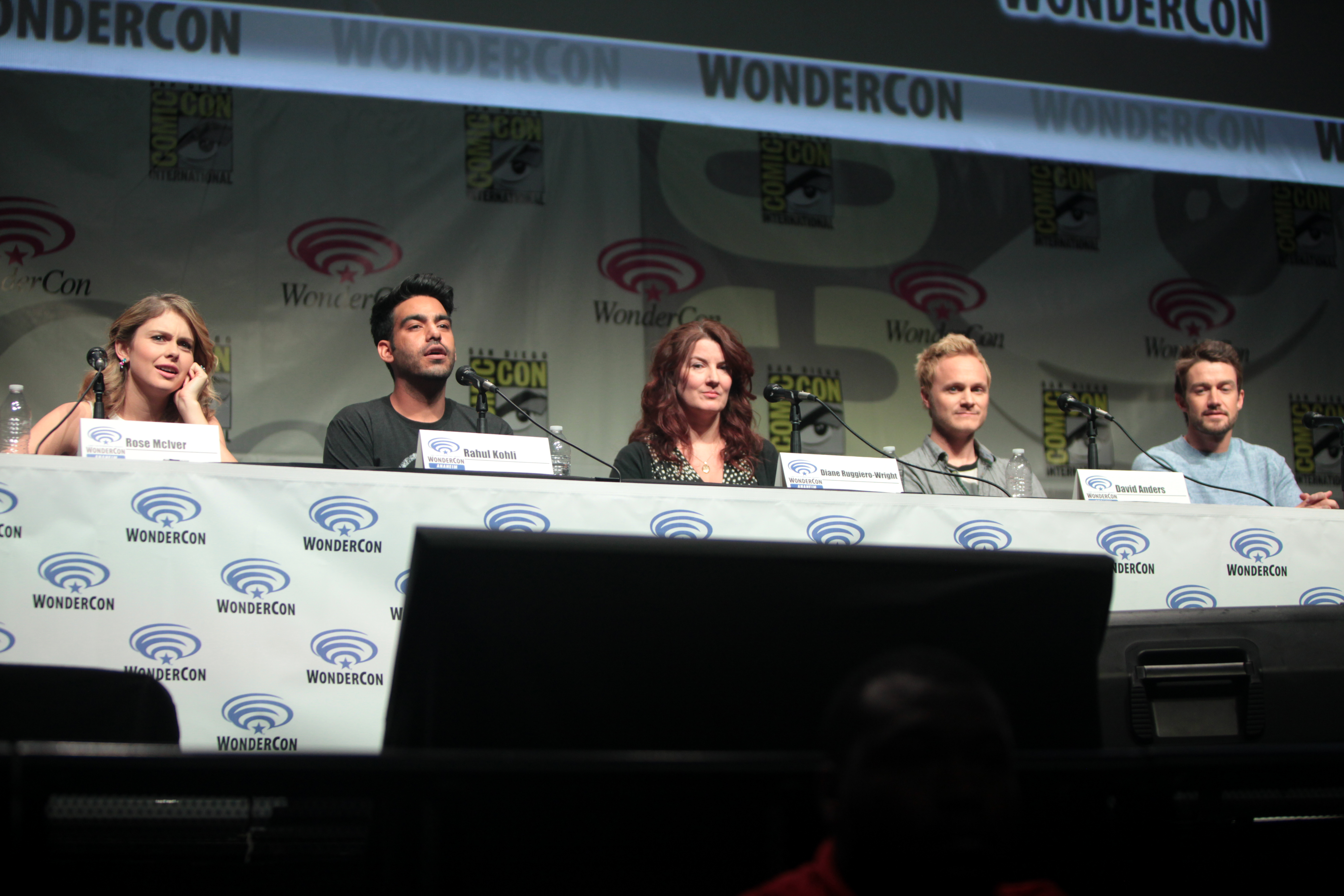 Rose McIver, Rahul Kohli, Diane Roggiero-Wright, David Anders and Robert Buckley speaking at the 2015 Wondercon, for "iZombie", at the Anaheim Convention Center in Anaheim, California.